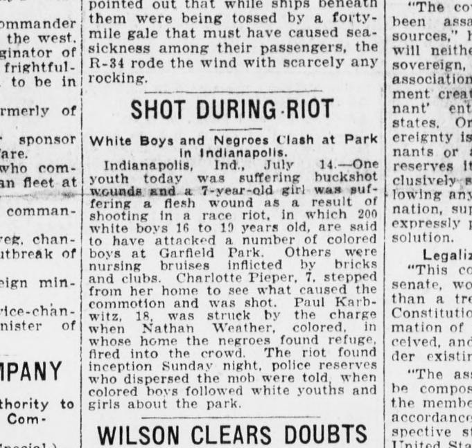 News coverage of the Garfield Park riot of 1919 SHOT DURING RIOT White Boys and Negroes Clash at Park In Indianapolis. Indianapolis, Indiana, July 14 - One youth today was suffering buckshot wounds, and a 7-year-old girl was suffering a flesh wound as a result of shooting in a race riot. In which 200 white boys 16 to 19 years old, are said to have attacked a number of colored boys at Garfield Park. Others were nursing bruises Inflicted by bricks and clubs. Charlotte Pieper, 7. stepped from her home to see what caused the commotion and was shot. Paul Karbwitz, 18, was struck by the charge when Nathan Weather, colored, in whose home the negroes found refuge, fired Into the crowd. The riot found inception Sunday night, police reserves who dispersed the mob were told when colored boys followed white youths and girls about the park.